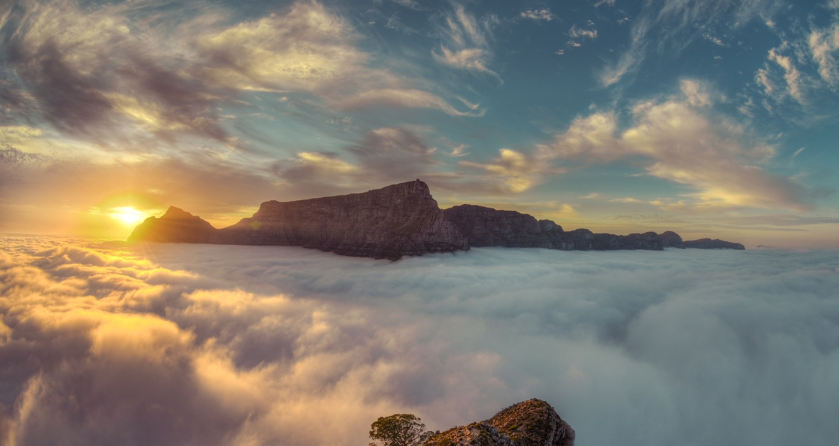 Sunrise from Lionshead above the clouds overlooking Table Moutain This media shows a South African Protected Site with SAHRA file reference 9/2/018/0022.